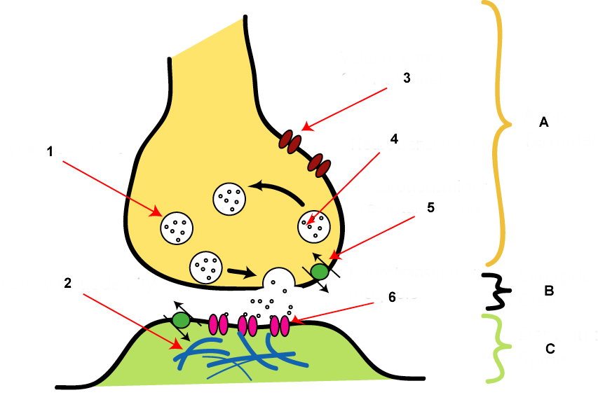 International version (only numbers). Modification of free image from English Wikipedia.